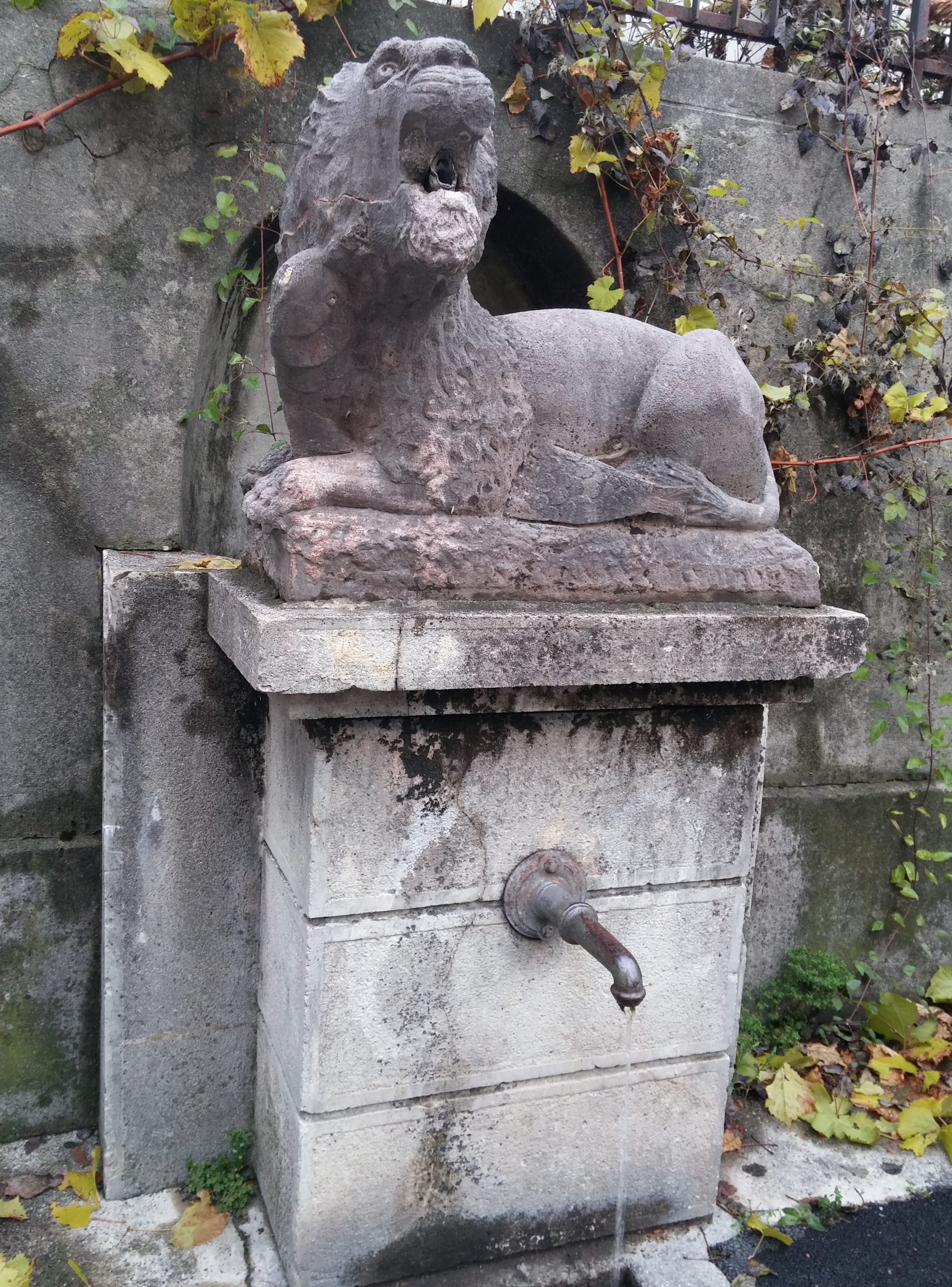 Fountain in Chiaicis of Verzegnis, representing a lion holding a fish in its legs. Originally the water used to flow from the lion's mouth and the fountain had a basin some ten meters long (which was removed during the sixties).